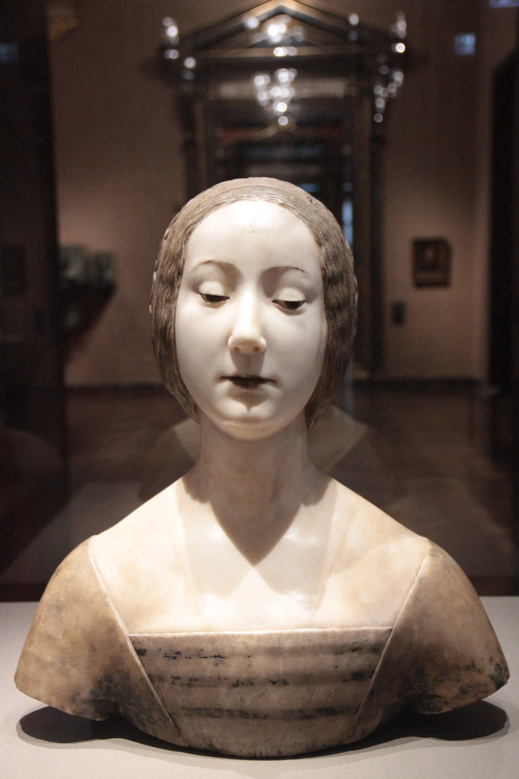 Female bust (An ideal portrait of Laura) by Francesco Laurana, marble, circa 1490. Kunsthistorisches Museum in Vienna.